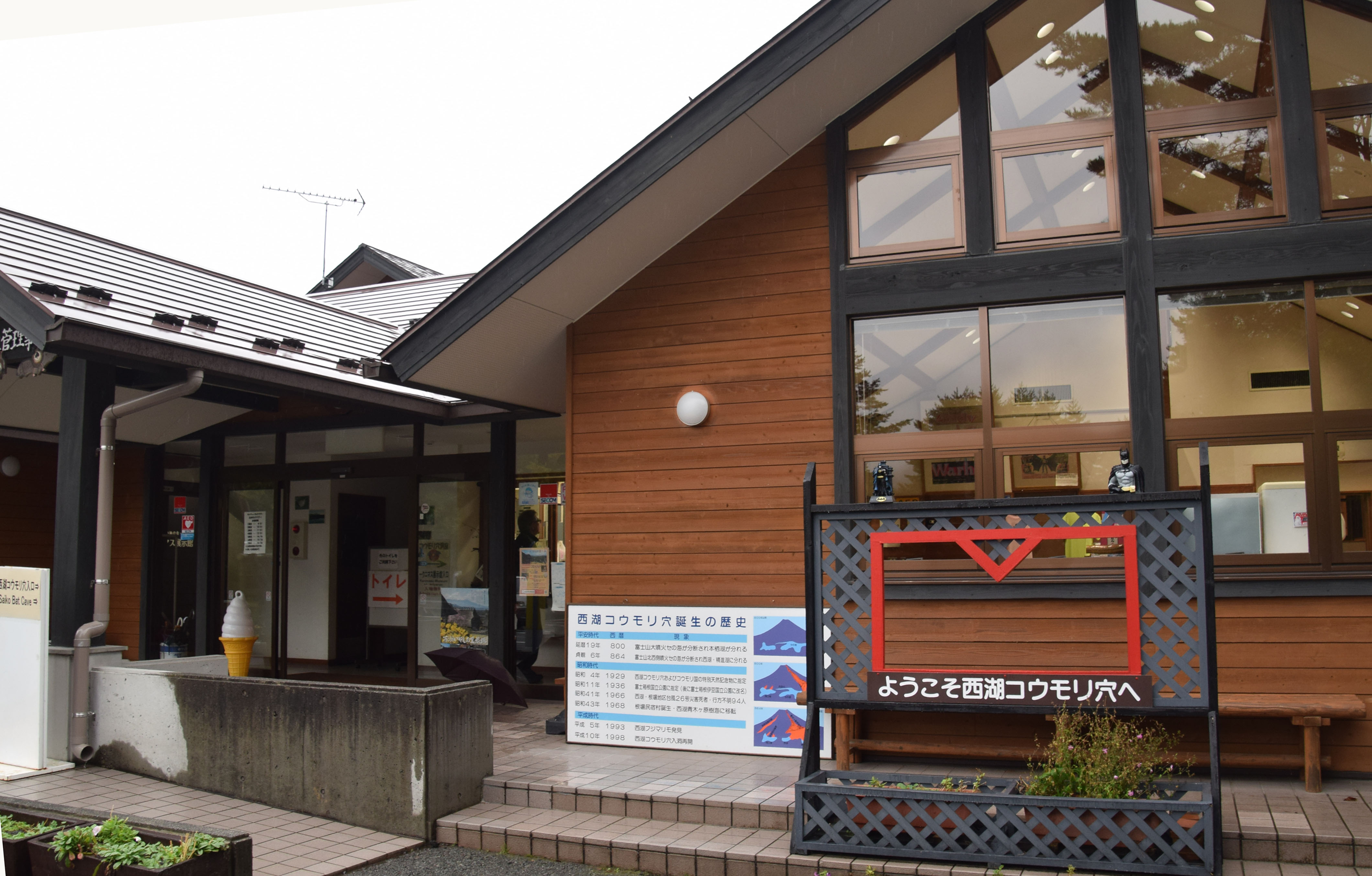 Saiko Nature Center, Fujikawaguchiko, Yamanashi, Japan